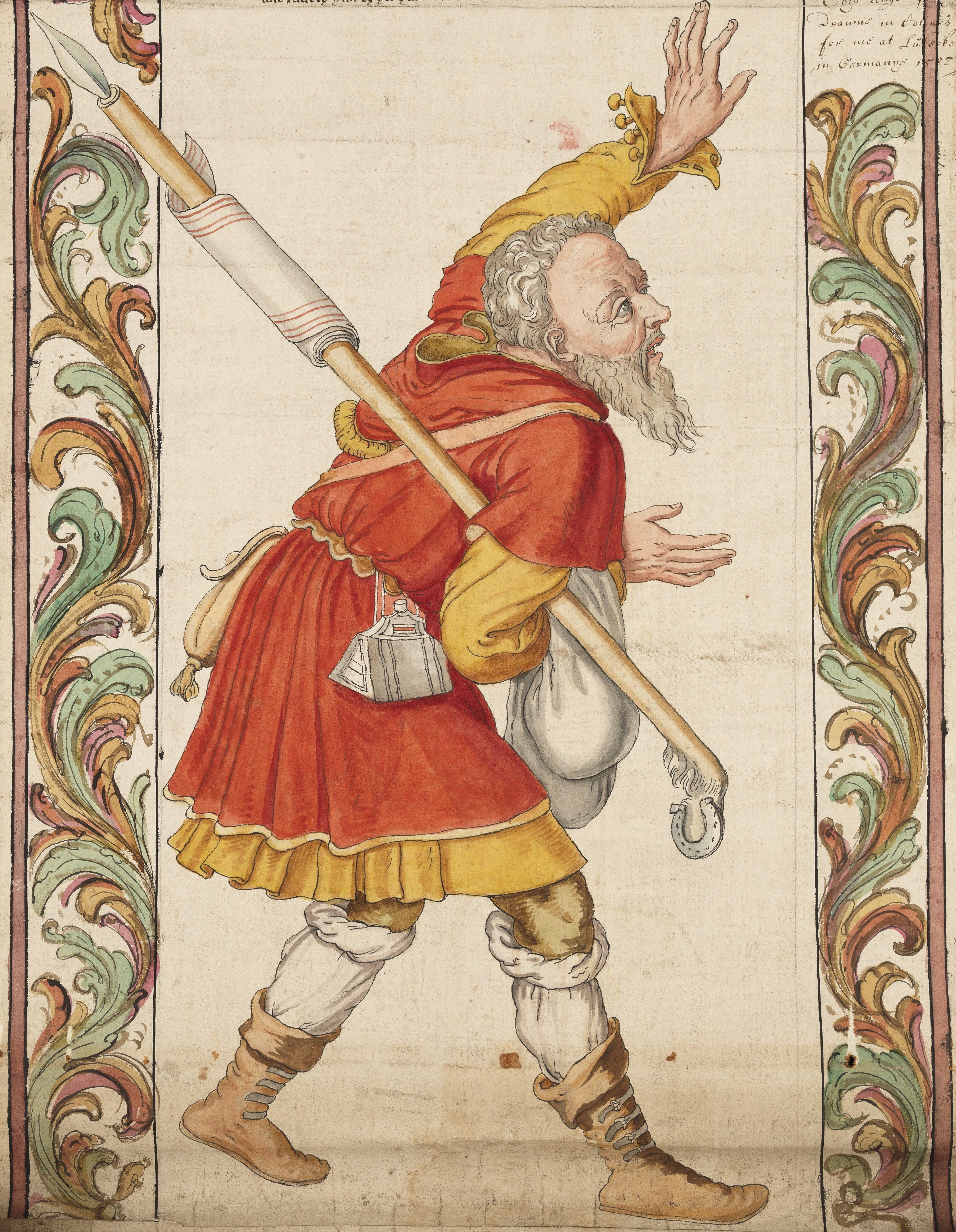 Cryptogram 7 of 7, full length image of the philosopher. His staff is wrapped with a scroll at one end, at the other it becomes a shod horse's hoof. Image taken from Rotulum hieroglyphicum G. Riplaei Equitis Aurati, an alchemical manuscript of the 16th century showing the processes for the production of the philosopher's stone in pictorial cryptograms. Archives & Manuscripts Keywords: George Ripley; Alchemy; Philosophy; Dragon